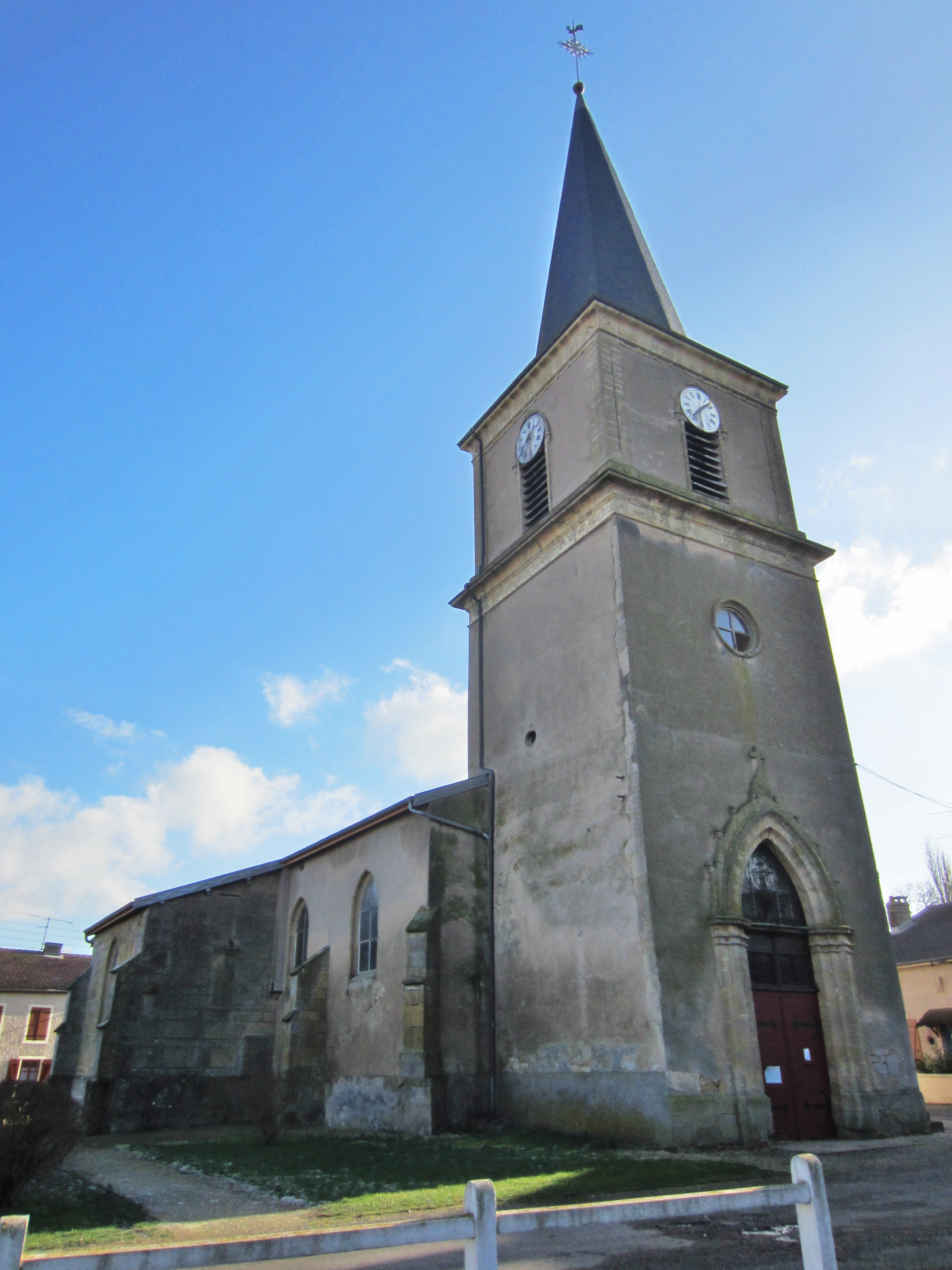 Buzy Darmont church